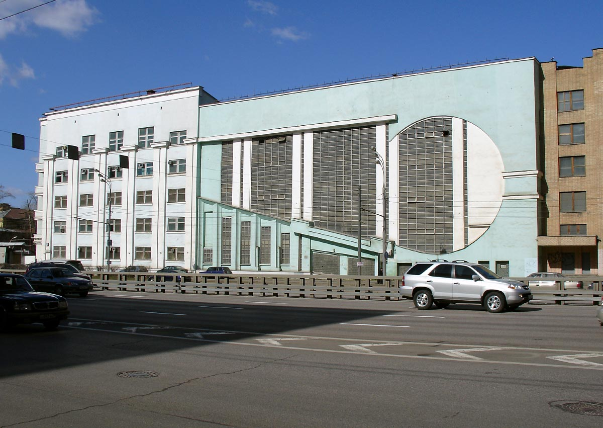 Intourist Garage — by Konstantin Melnikov (early 1930s), in Moscow, Russia.